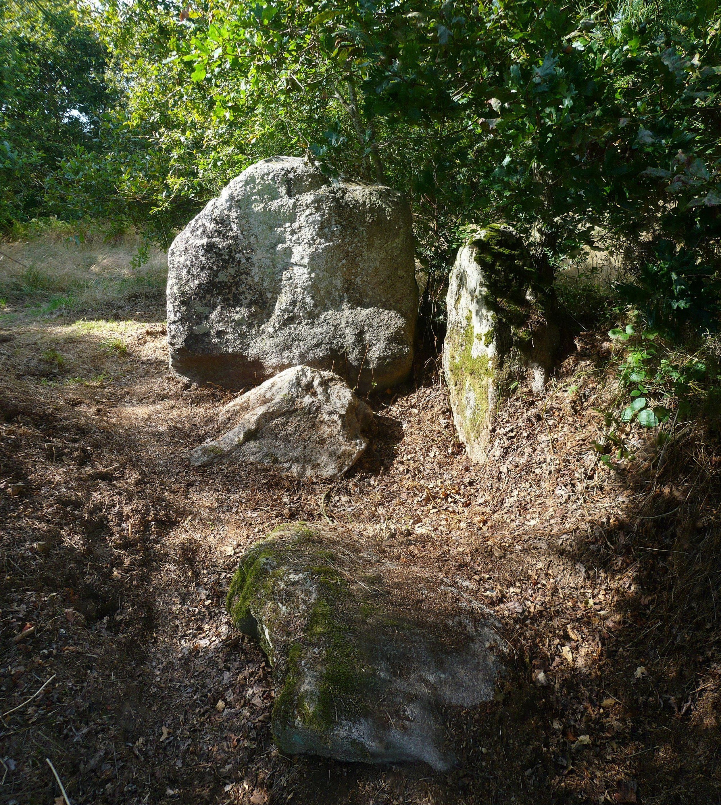 Dolmen de Sandun, Guérande, Loire-Atlantique, France.